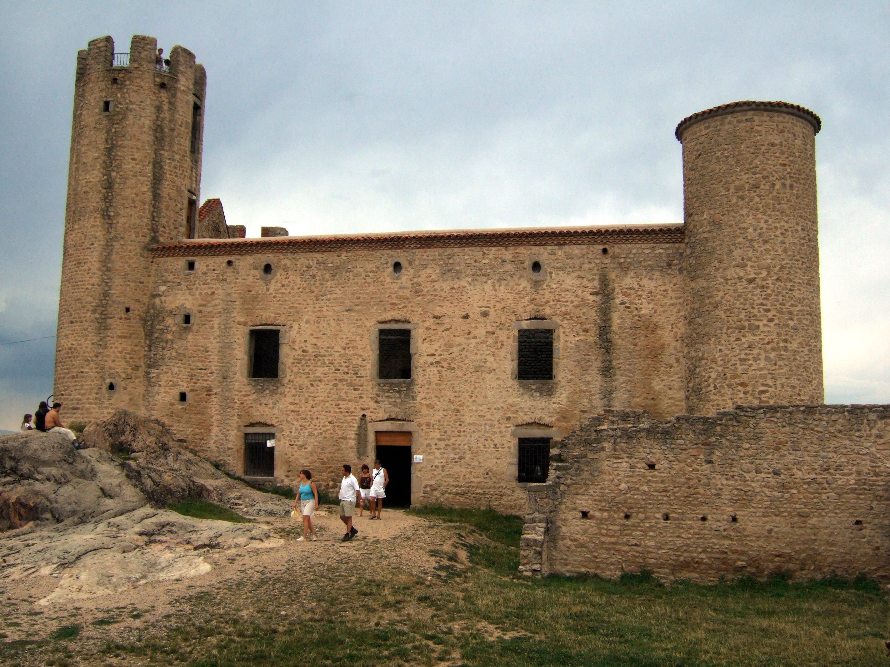 The château d'Essalois, in the Loire departement of France.